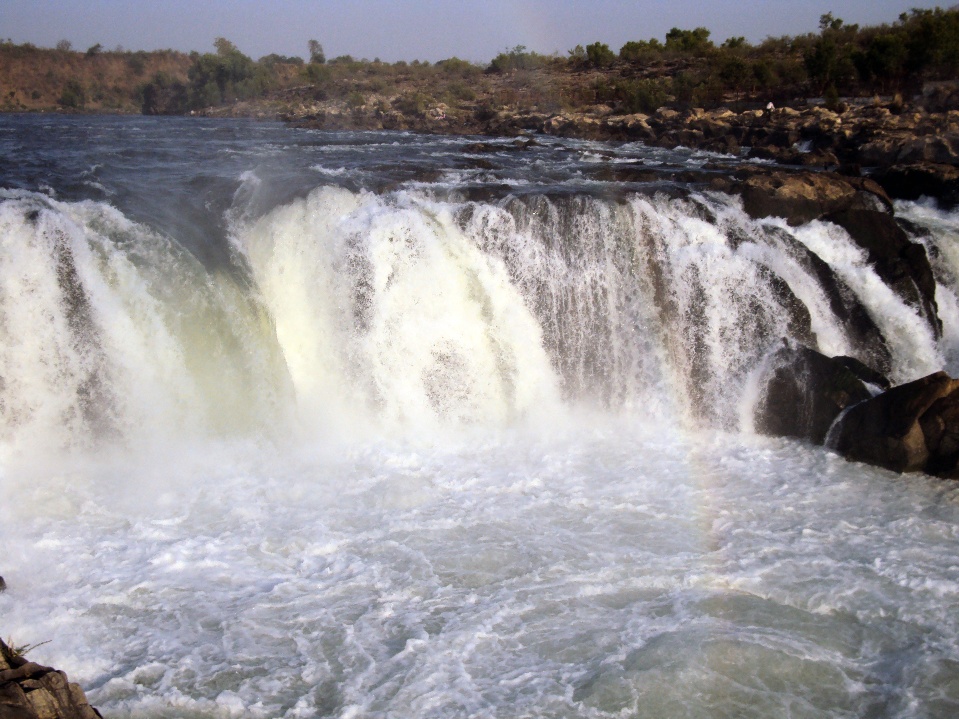 This is a picture of Dhuandhar (meaning Smoke-filled) Water Fall situated at Bhedahat, Jabalpur, Madhya Pradesh, India.